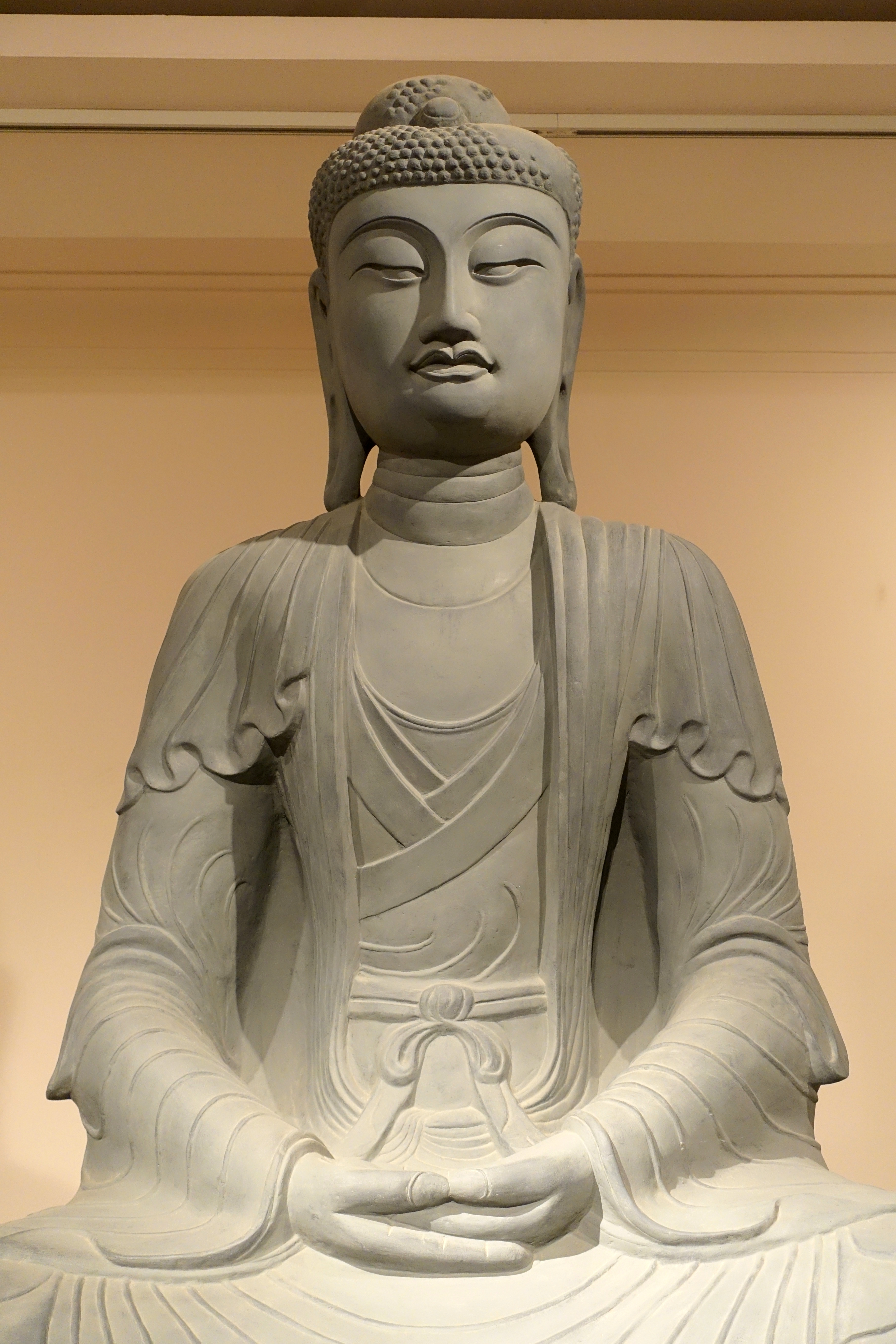 Exhibit in the Vietnam National Museum of Fine Arts - Hanoi, Vietnam. This artwork is old enough so that it is in the public domain.